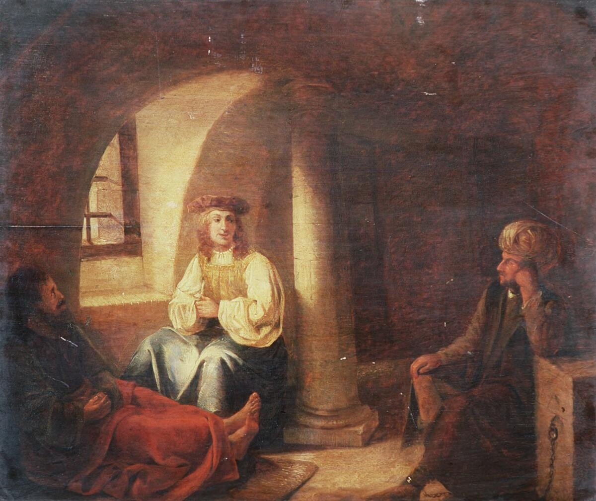 A painting from the Framed Works of Art collection at the National Library of wales.